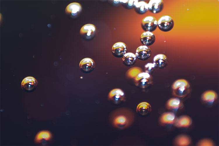 Macro photograph of coca-cola bubbles.